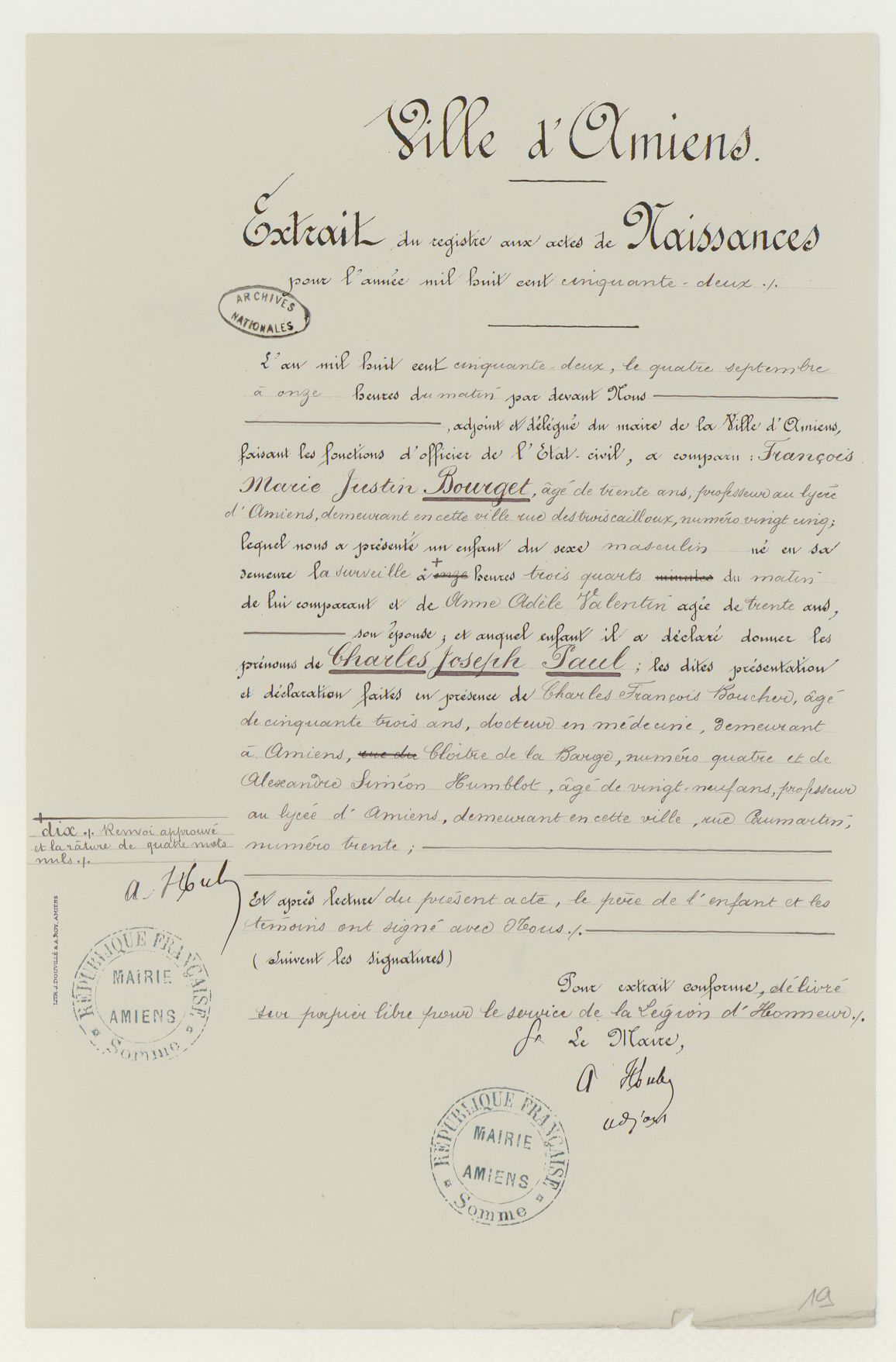 extrait d'acte de naissance de Paul Bourget figurant dans son dossier de Légion d'honneur